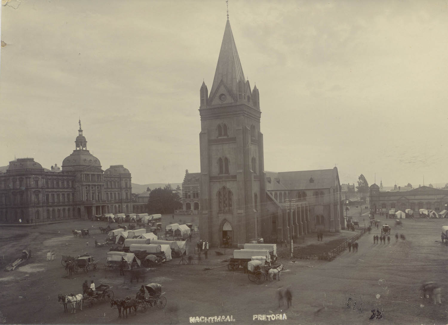 The Raadzaal, 3rd church or Verenigde Kerk (1885-1905) and the Post Office building on Church Square, Pretoria. The square is seen during nachtmaal (devine service) which took place once every three months.